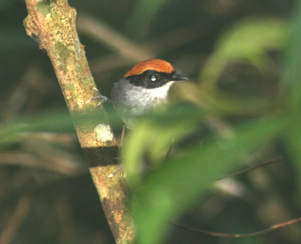 Black-cheeked Gnateater (Conopophaga melanops)